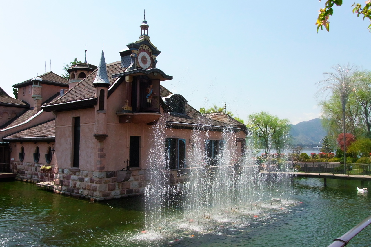 The fountain show on the hour every hour, at Kawaguchi-ko Music Forest Museum.